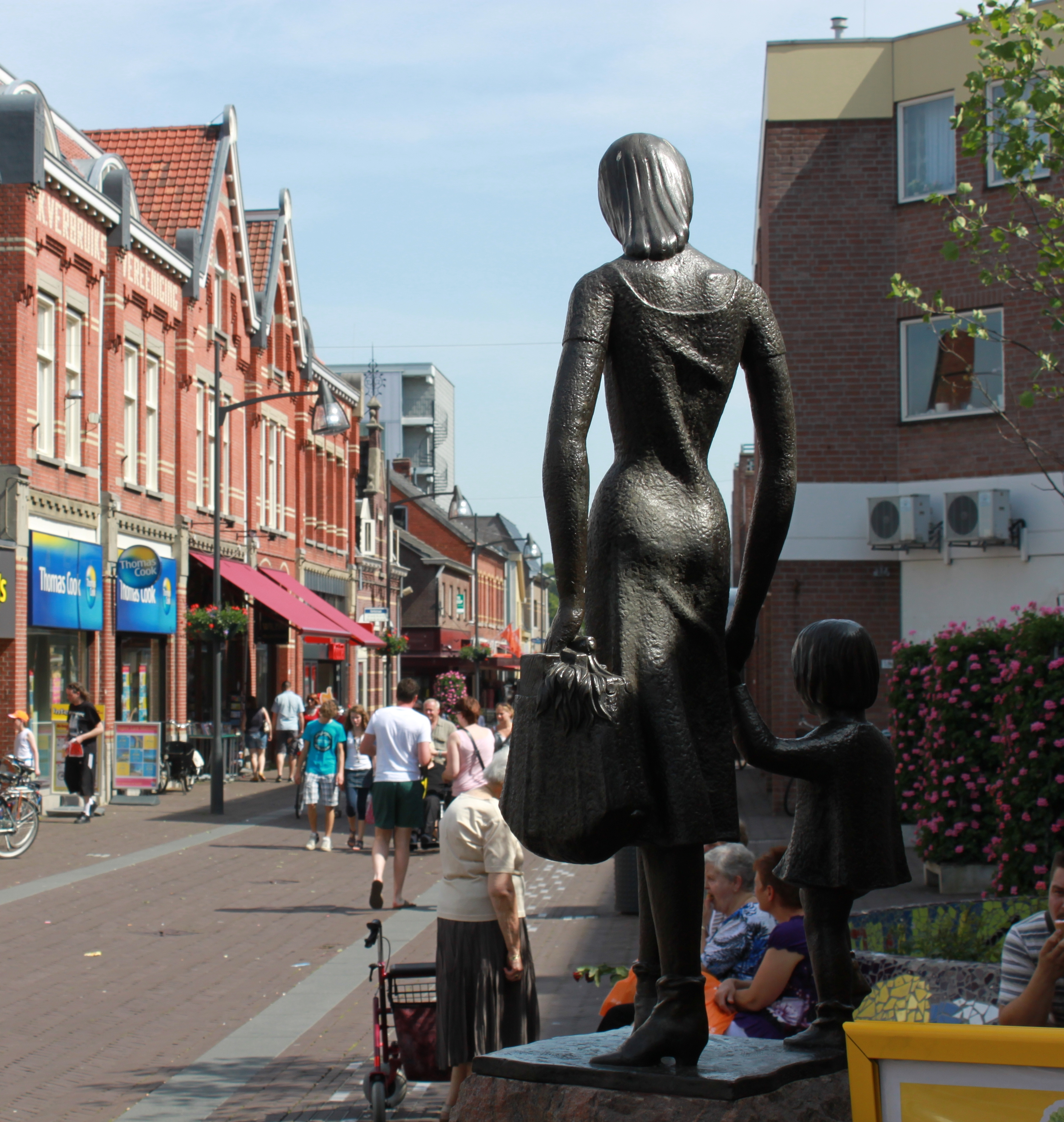 central shopping street Kerkstraat in Tegelen (The Netherlands)